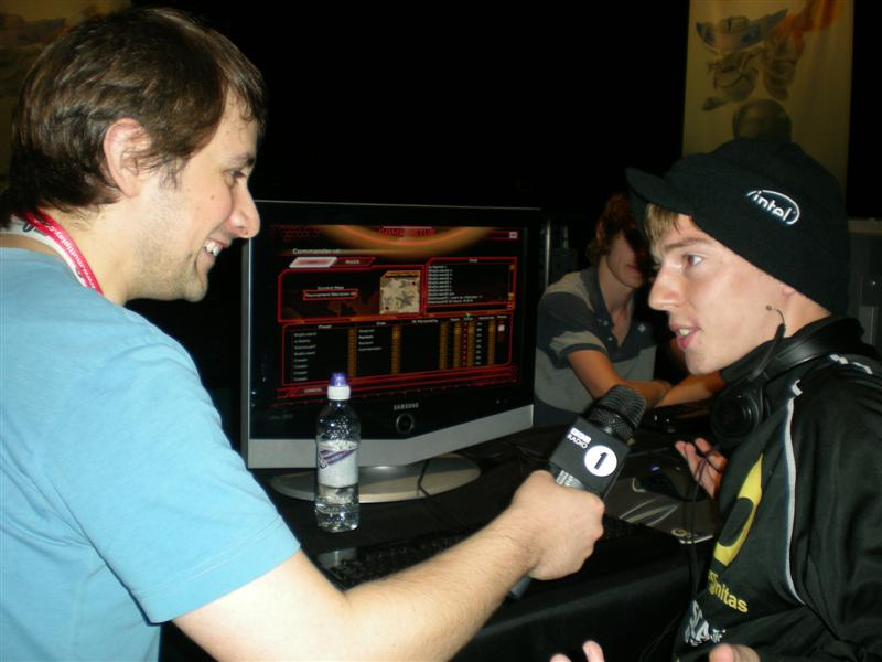 Team Dignitas player Shaun "Apollo" Clark being interviewed by BBC Radio 1.